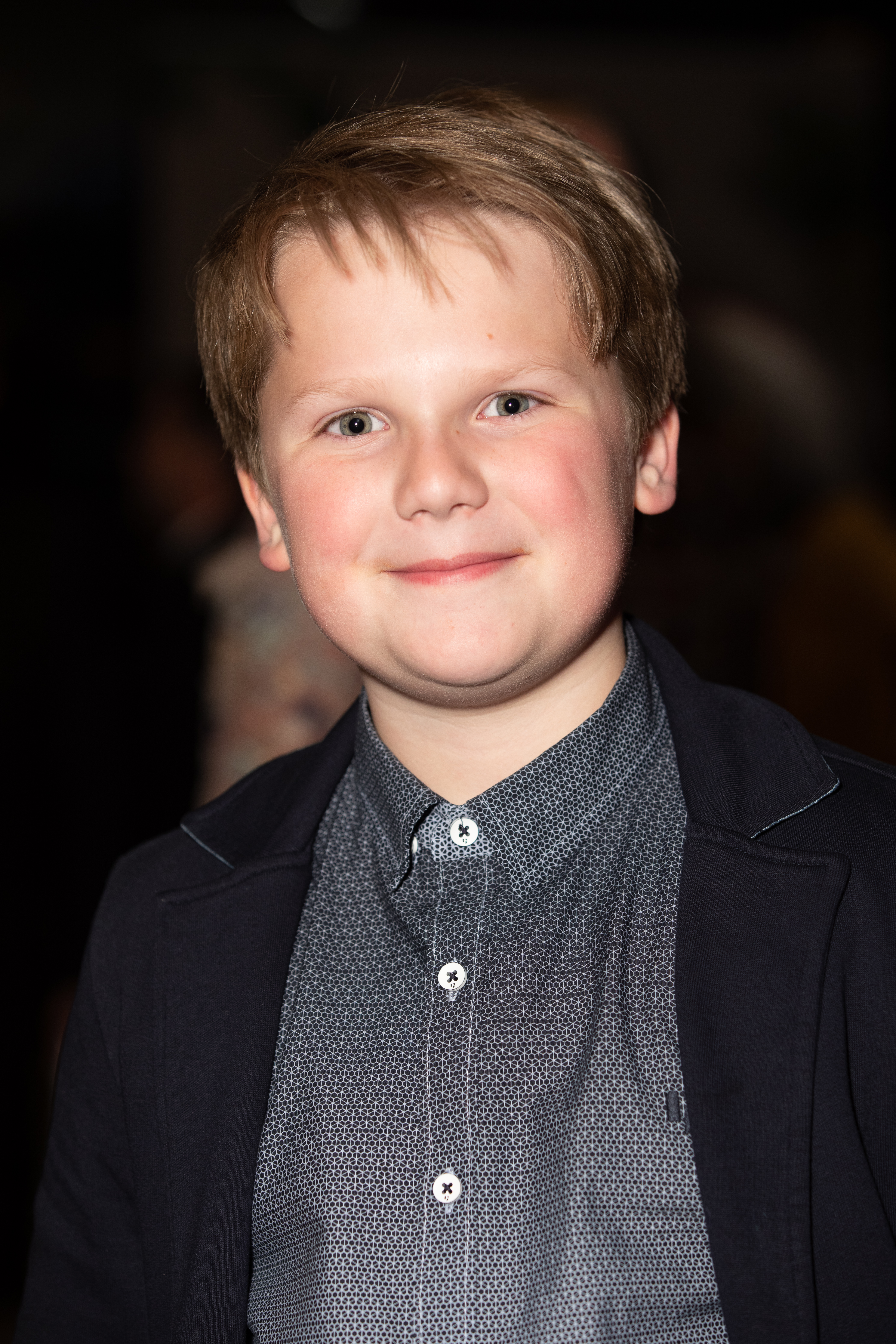 Julius Weckauf at the party of the German Film Award 2019 at the Palais am Funkturm, Berlin.